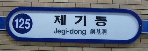 Jegi-dong Station